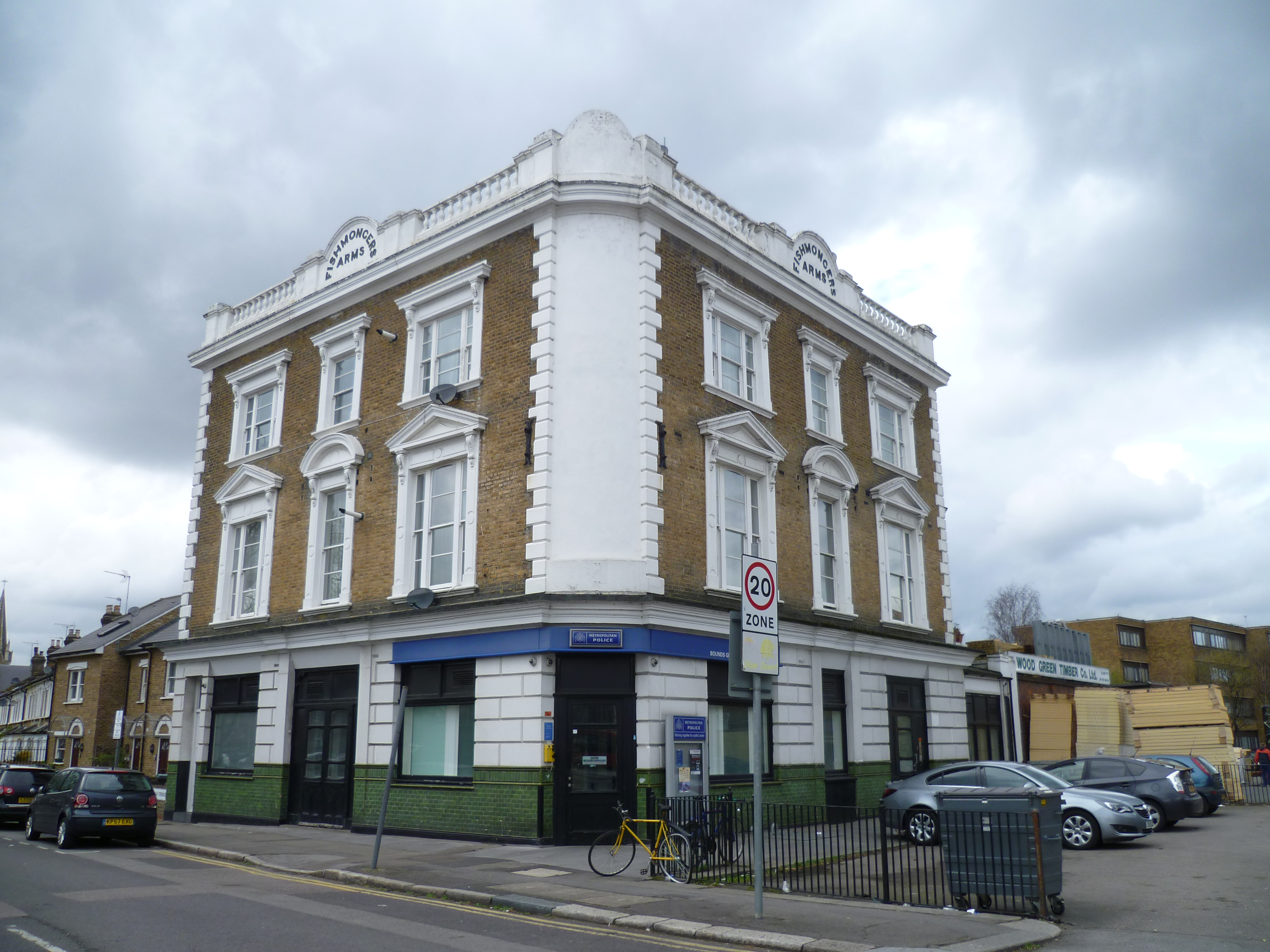 London